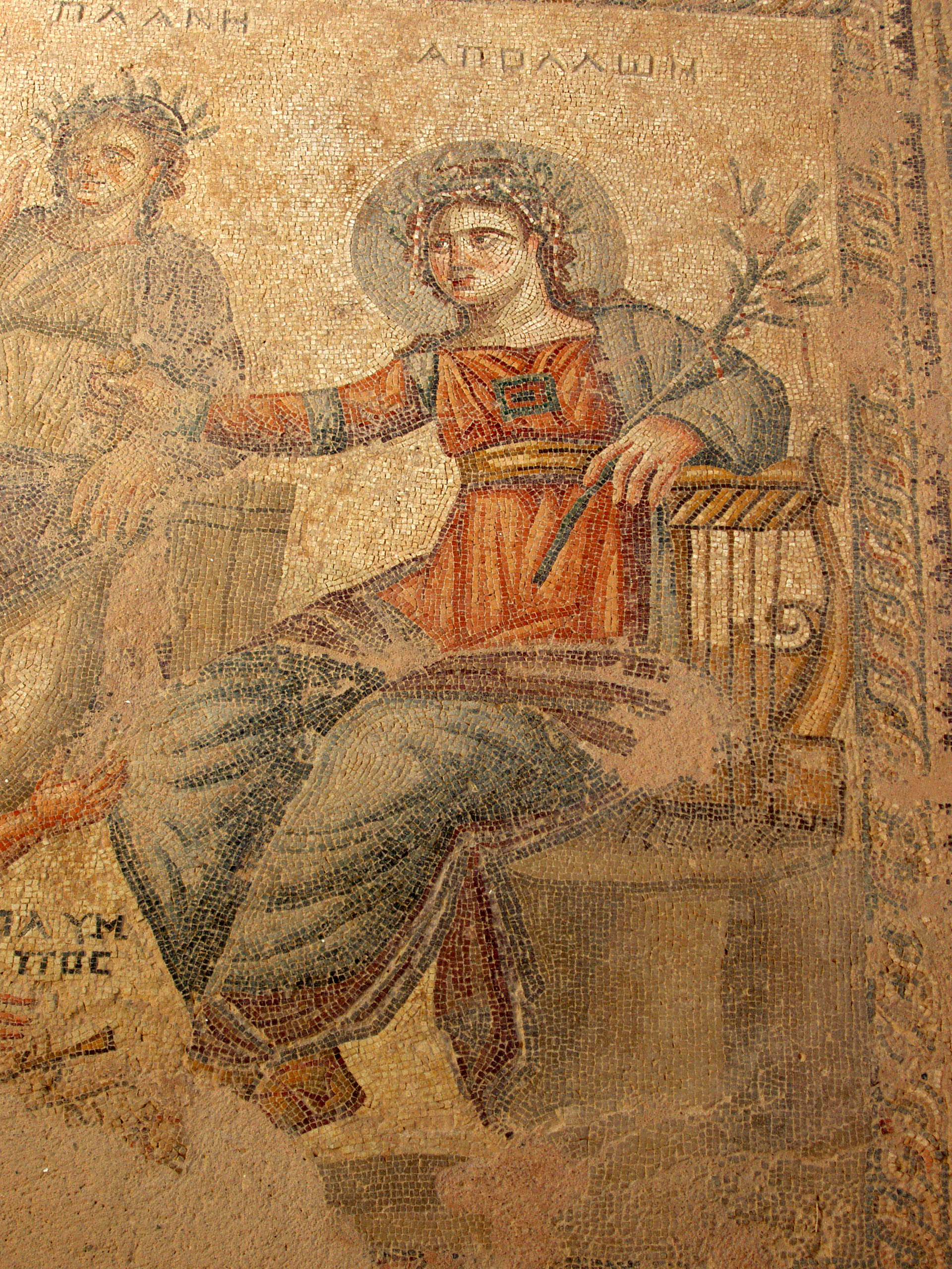 Apollo. Bodenmosaik in Pafos (Zypern)